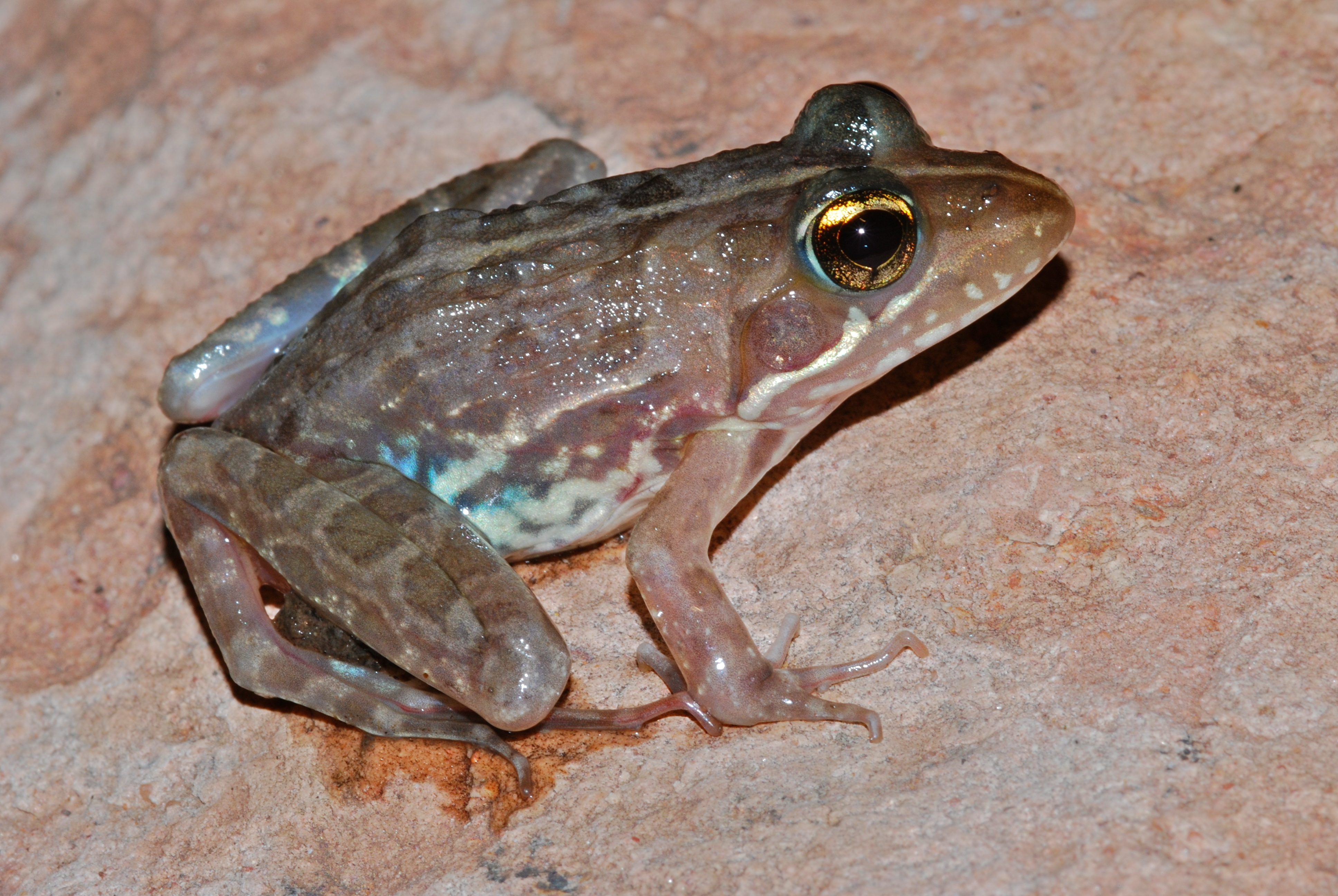 Augrabies National Park, SOUTH AFRICA